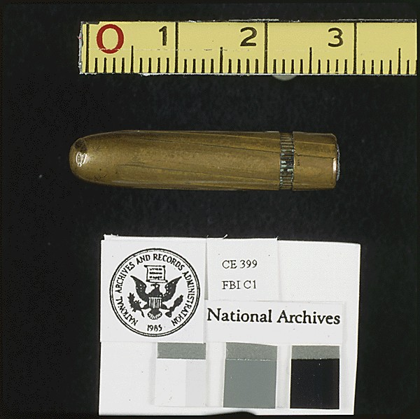 Warren Commission exhibit CE399, the “single” or “magic” bullet. Photo from the National Archives and Records Administration. ARC: 305144